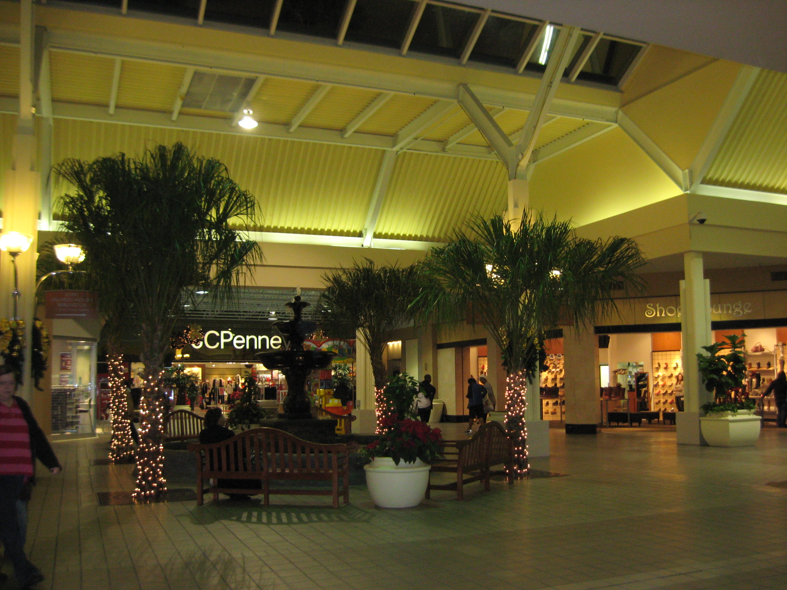 One of North Shore Square's water fountains with JCPenney in the background. Slidell, Louisiana.